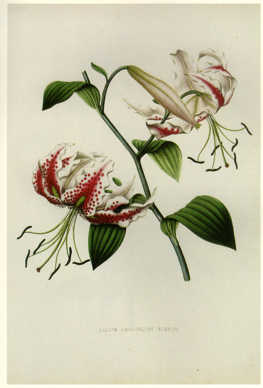 Lilium speciosum, drawn in chalk on stone, colored; 28 x 22.5 cm